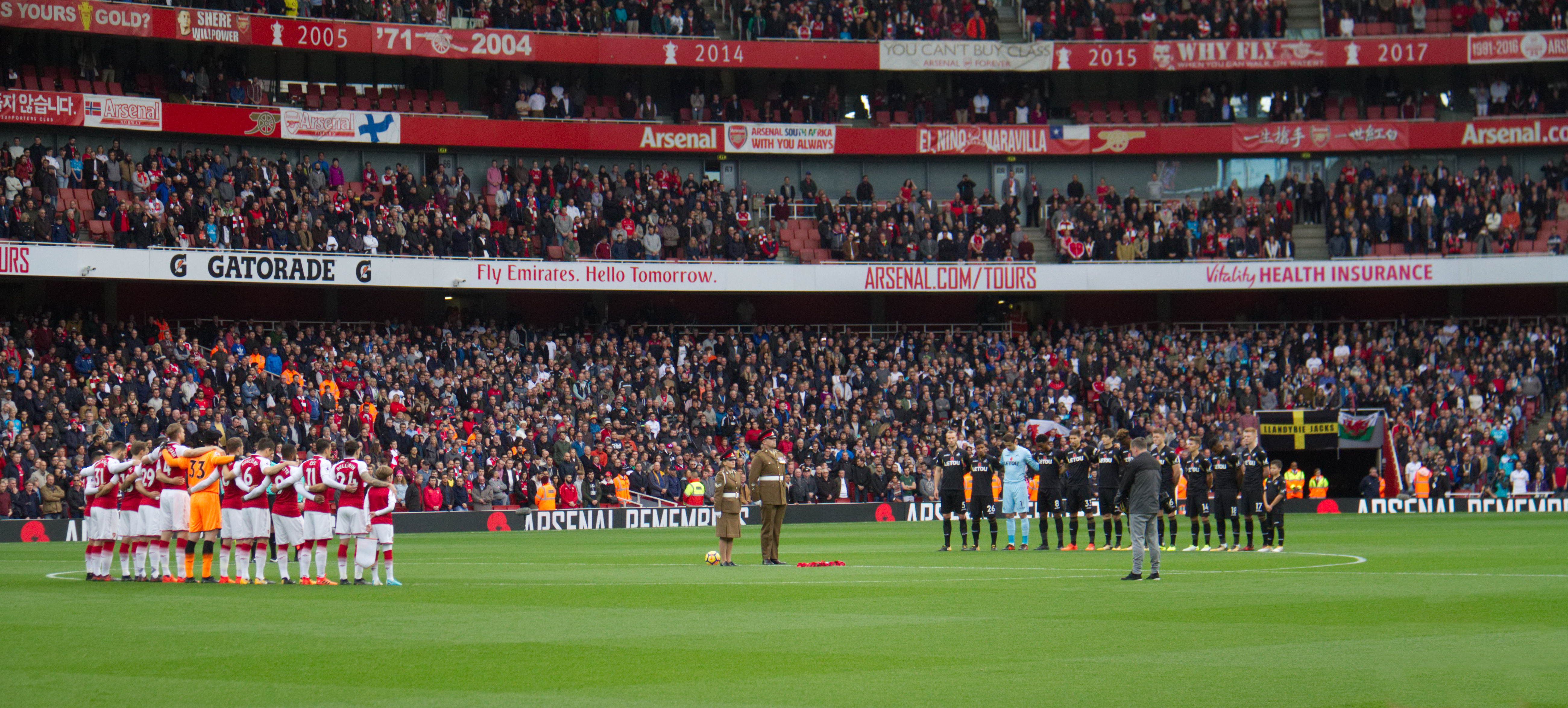 02 Football Remembers IMG_3728